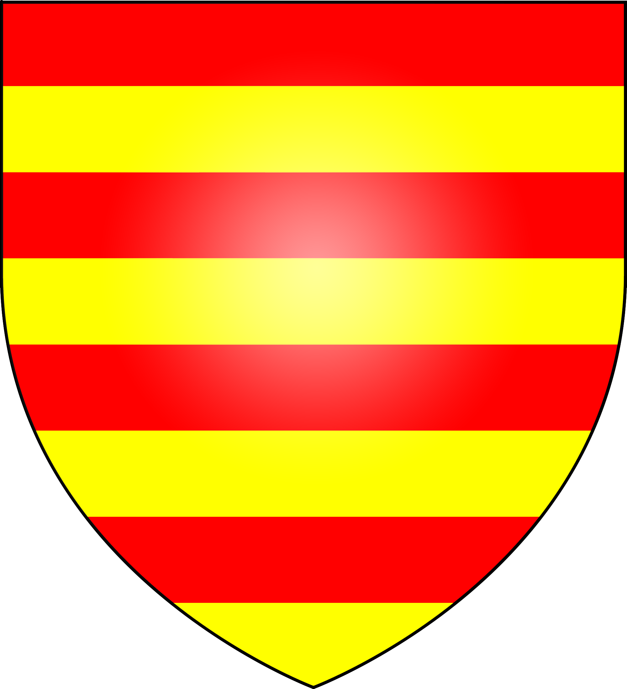 As described in A genealogical and heraldic history of the commoners of Great Britain Volume 3: Barry of eight, Gules and Or